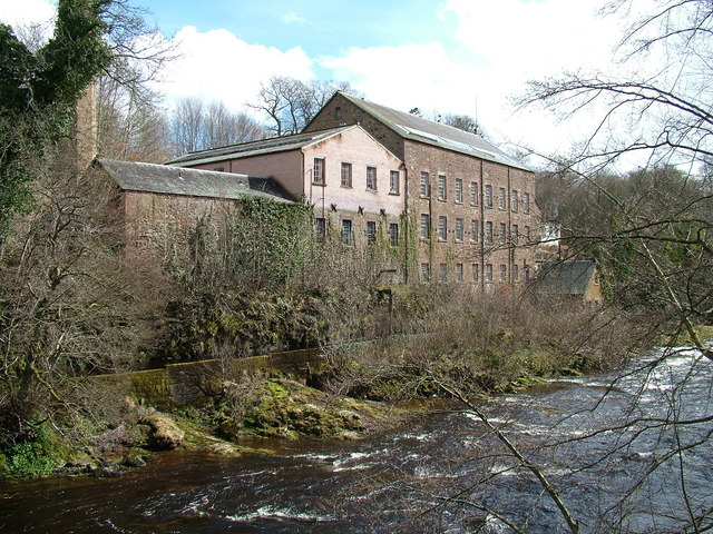 Keathbank Mill beside River Ericht, Blairgowrie